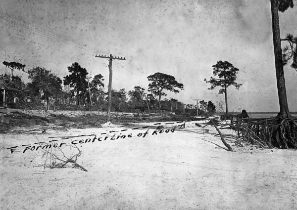 Aftermath of the 1921 Tampa Bay hurricane.